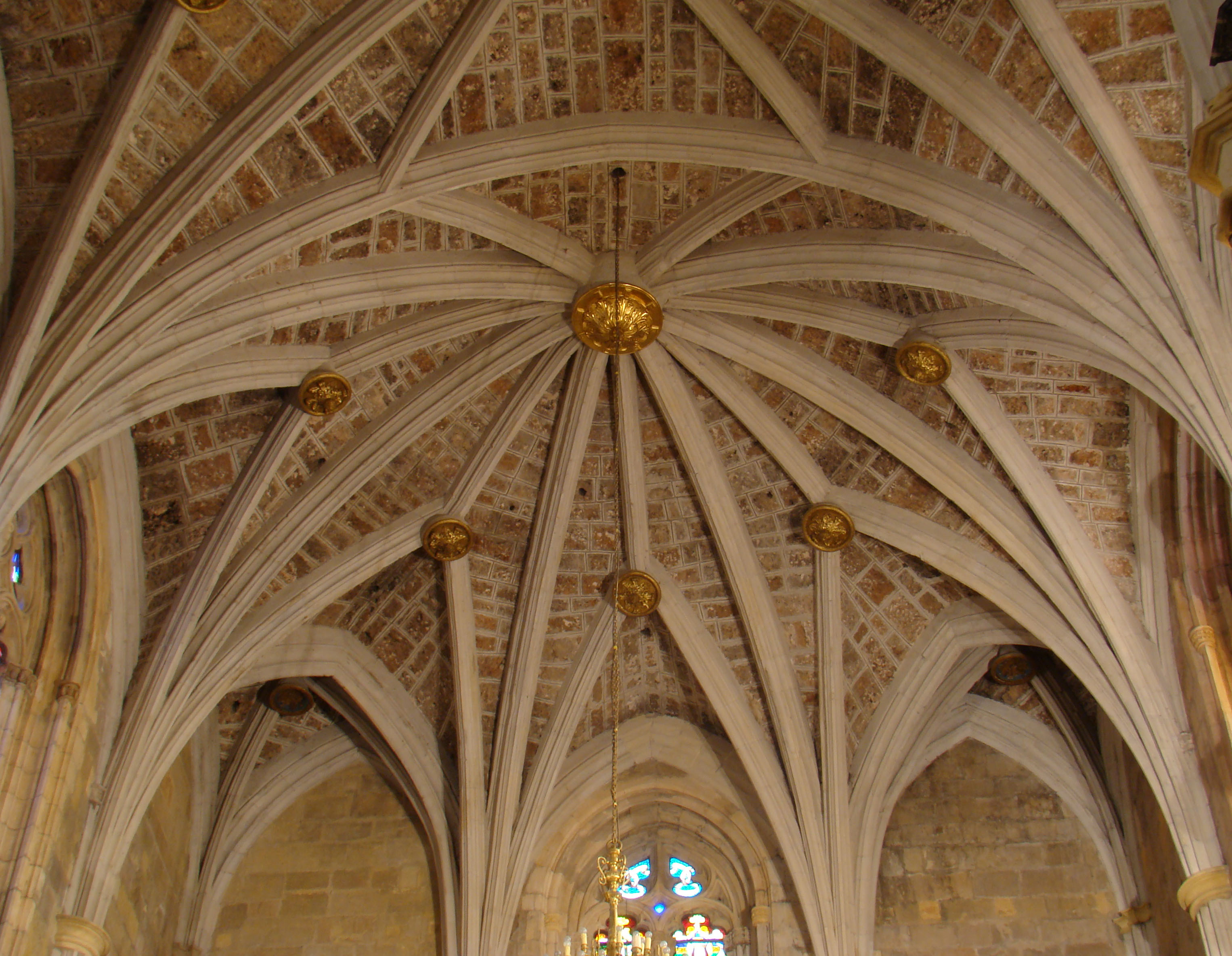 Romanesque basilica of San Isidoro in León, Spain. Dome of the main chapel.